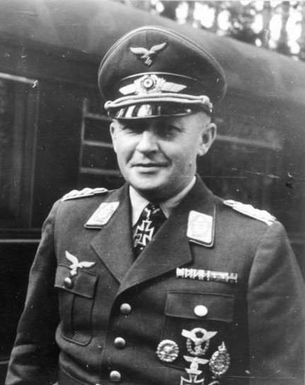 Title: Kurt Student Extra information: General der Fallschirmjäger Kurt Student (rechts) vor einem Eisenbahnwaggon stehend (Befehlszug von Hermann Göring?) People in the image: Student, Kurt: General der Flieger, Ritterkreuz (RK), Luftwaffe, Deutschland (GND 118619616) Factual corrections and alternative descriptions are encouraged separately from the original description. Additionally errors can be reported at this page to inform the Bundesarchiv. Original historic description